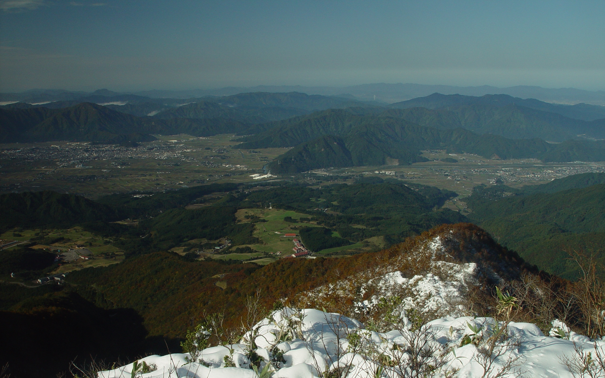 Rokuroshi Highland, Ōno Basin, and Katsuyama Basin seen from Mount Kyo in Fukui Prefecture, Japan.